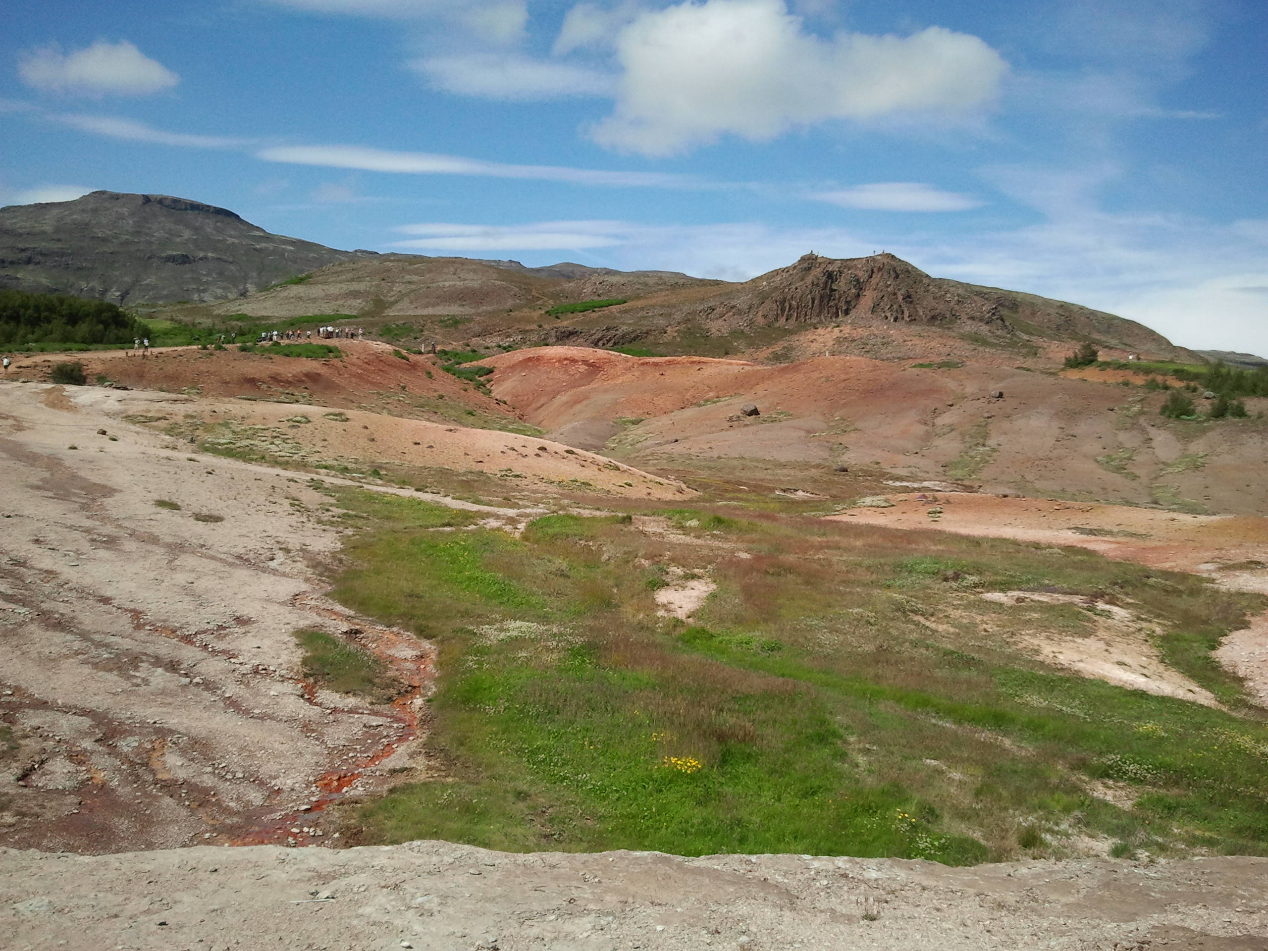 Icelandic scenery near Geysir